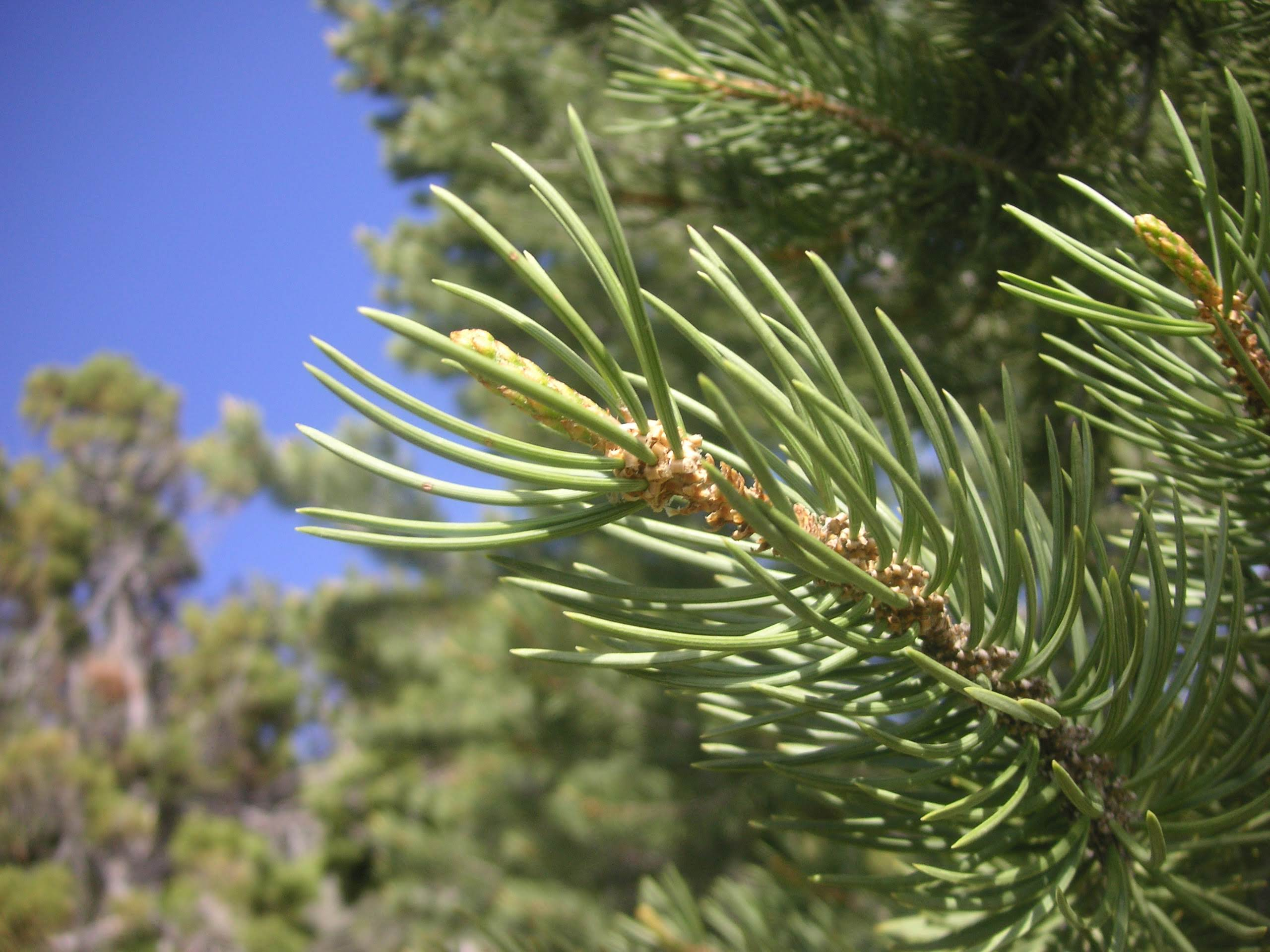 Needles of pinon hybrid in Northern Utah